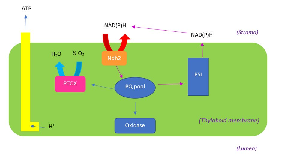 A diagram depicting newly discovered molecules (PTOX and the NDH complex) as part of the chlororespiratory process in higher order plants.